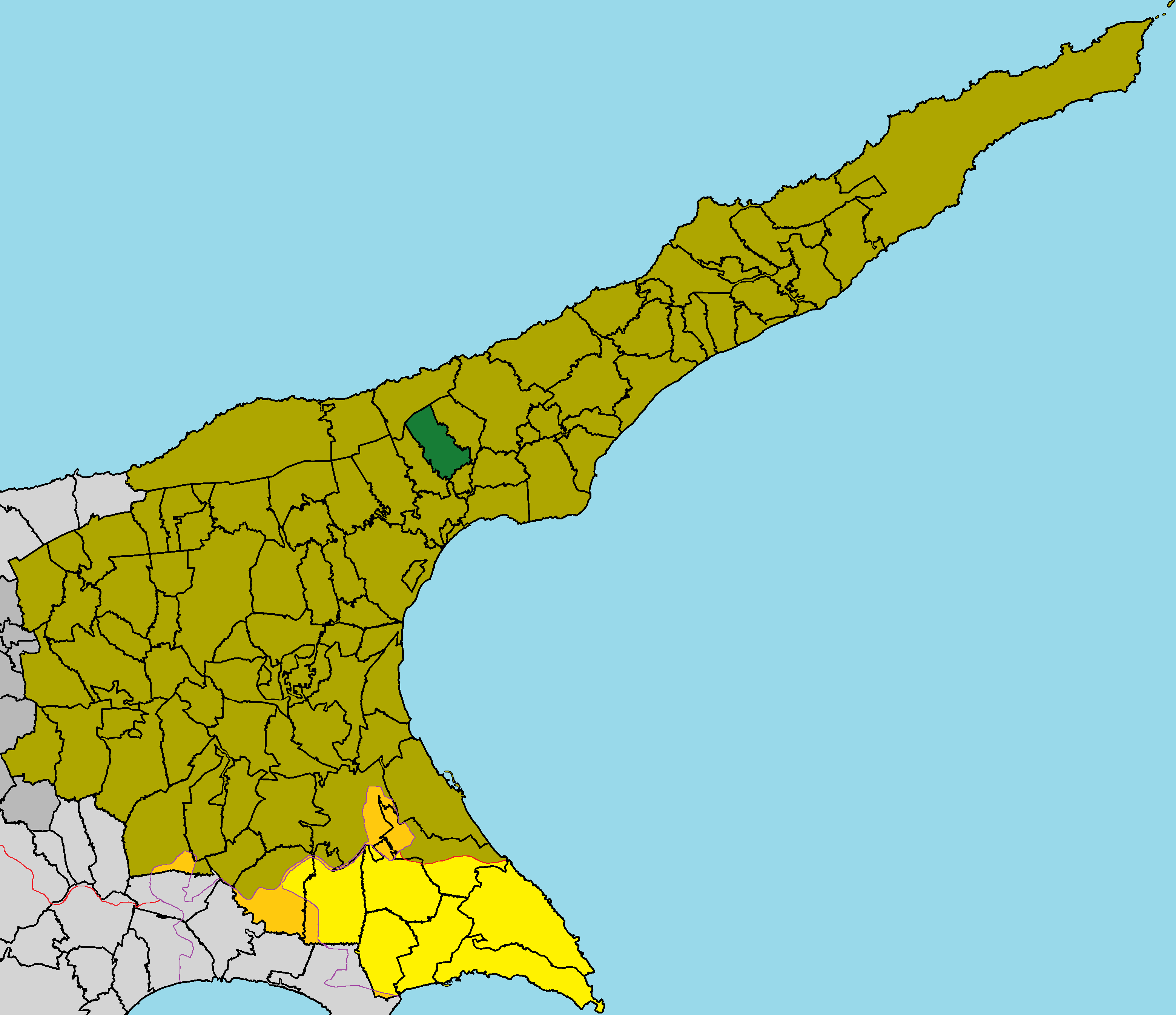 Ovgoros in Famagusta District (de jure).